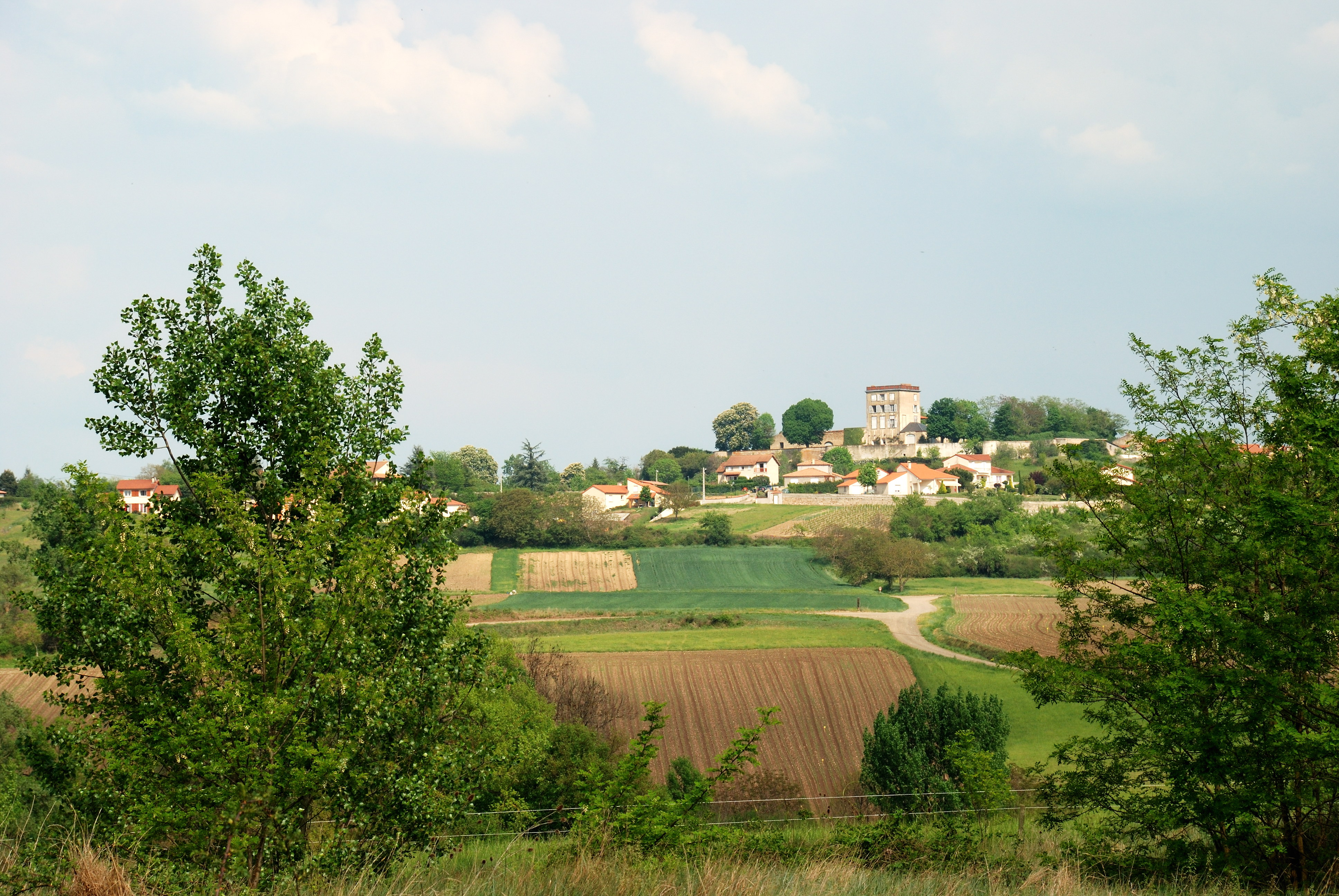 Village of general view from the West (Puy-de-Dôme, France).